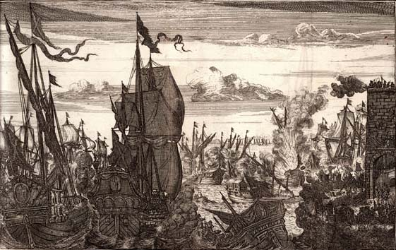 Henry Morgan Destroys the Spanish Fleet at Lake Maracaibo, Venezuela